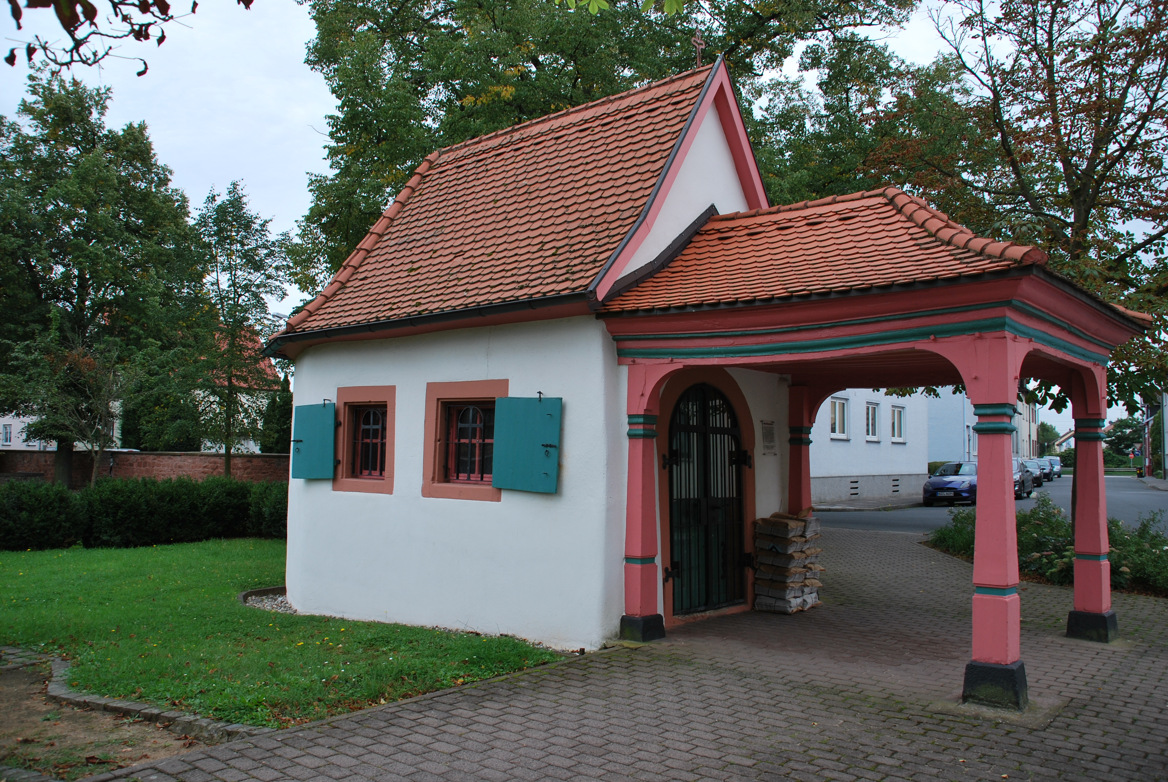 The Wendelinus chapel in Wendelinus Dietenheim was first documented mention in 1450. The construction of basalt stone with a wooden porch was restored again and again and finally re-consecrated in 1987. In the inside is now a statue of St. Wendelin, the originally standing there, "Anna-Selbdritt Altar", is now in the Dietesheimer parish church of St. Sebastian.